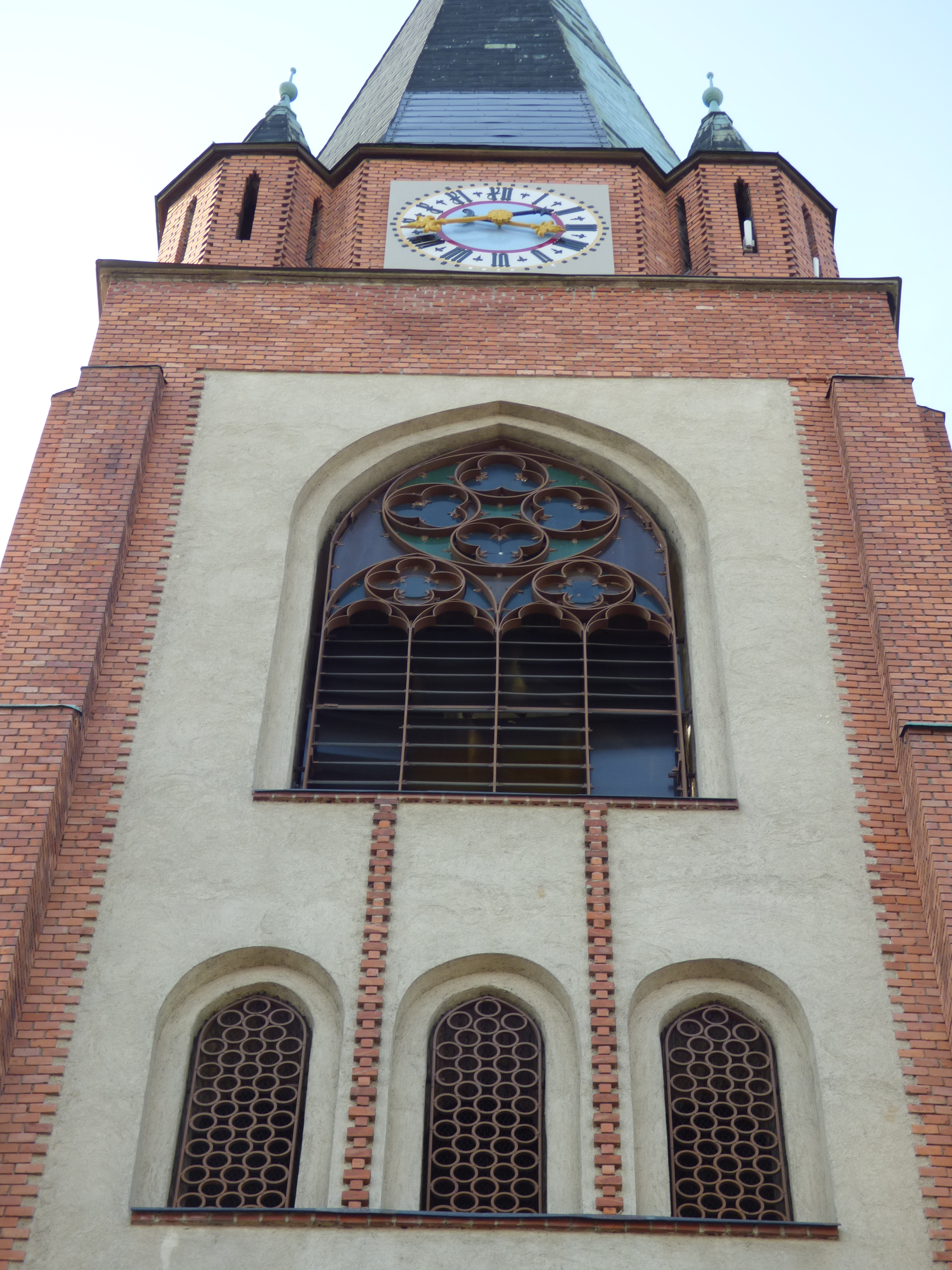 Dunaharaszti, a templom főhomlokzata